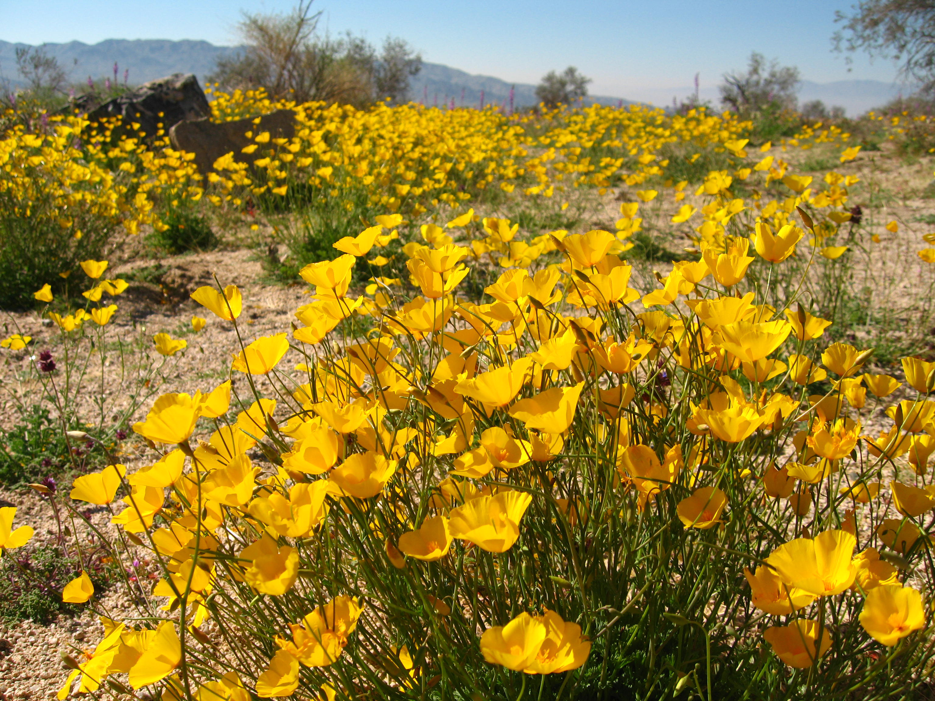 Eschscholzia parishii — Parish's poppy. In a bajada (dry wash) of the southern Mojave Desert, in Joshua Tree National Park, Southern California. 12525825503.